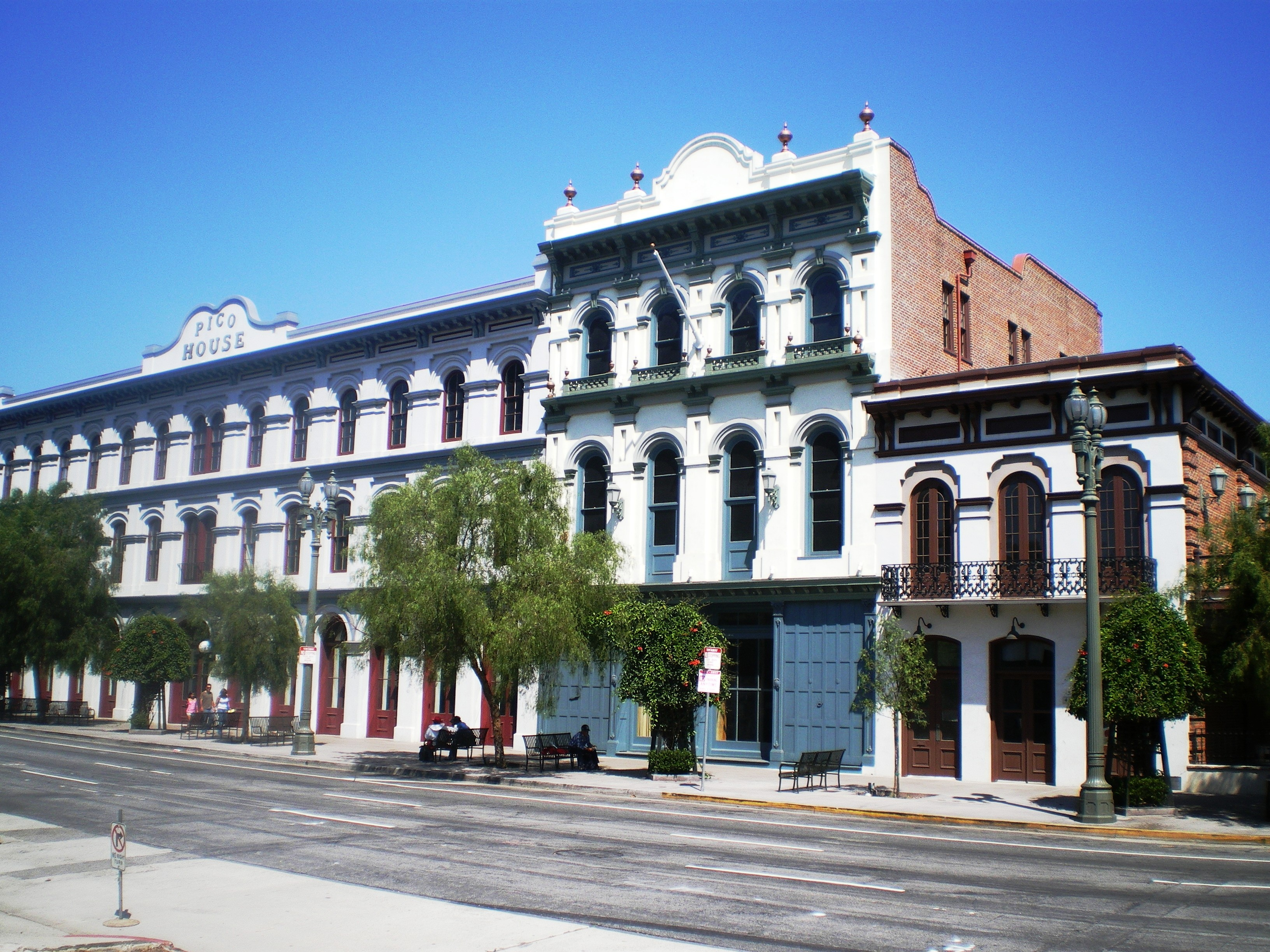 Photograph showing (L→R): the Pico House (1870); Merced Theater (1870); and Masonic Hall (1858) — at El Pueblo de Los Angeles Plaza Historic District. Located on North Main Street, in downtown Los Angeles, California.